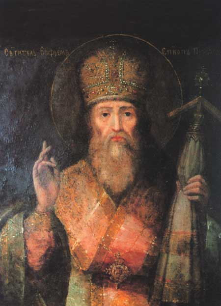 Saint Ephraim bishop of Pereyeslav, later monk at Kyiv Caves monastery, where his relics are preserved.